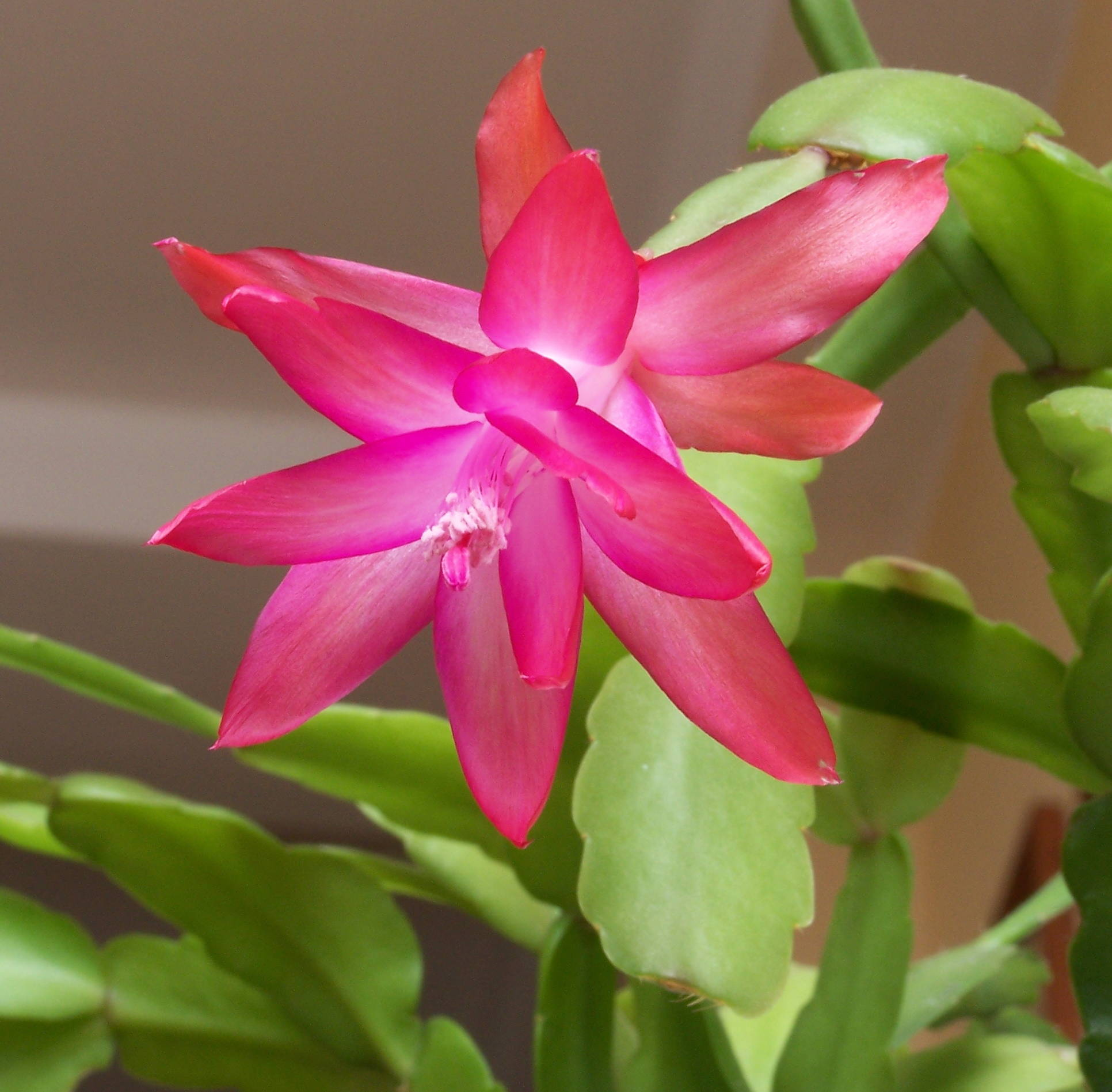 Close-up photo of a cultivar of Schlumbergera Buckleyi Group